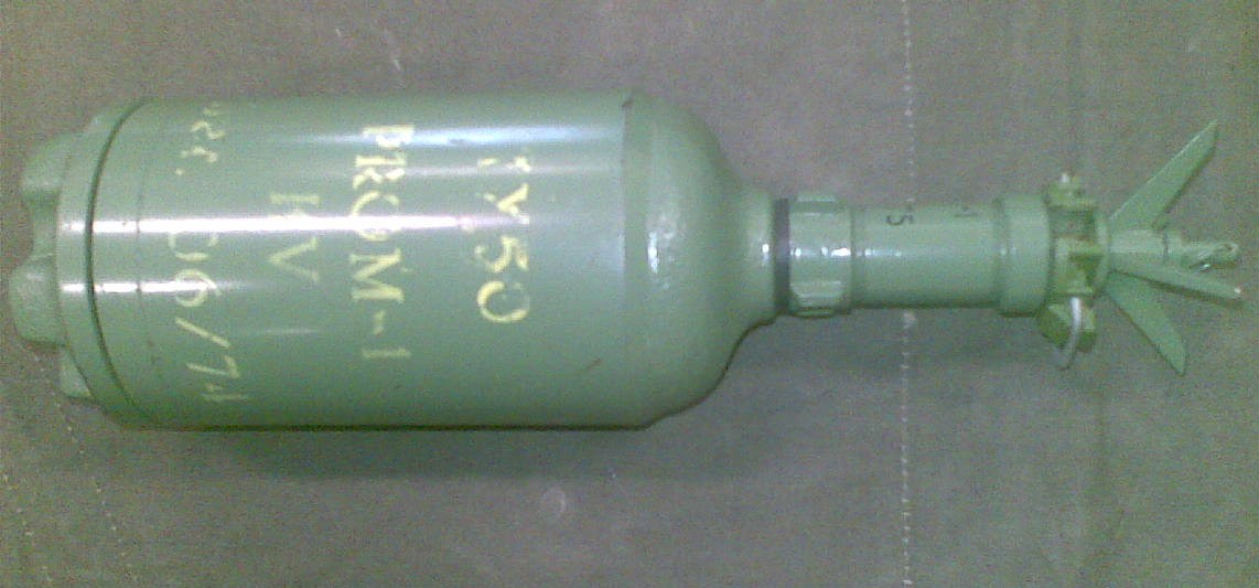 PROM-1 bounding mine.